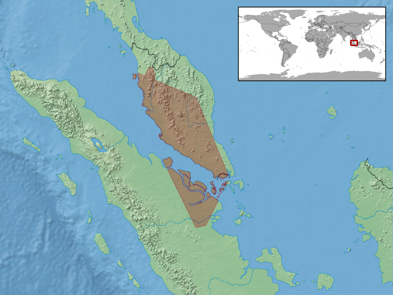 geographic distribution of Calamaria albiventer (Native: Indonesia (Sumatera); Malaysia (Peninsular Malaysia))